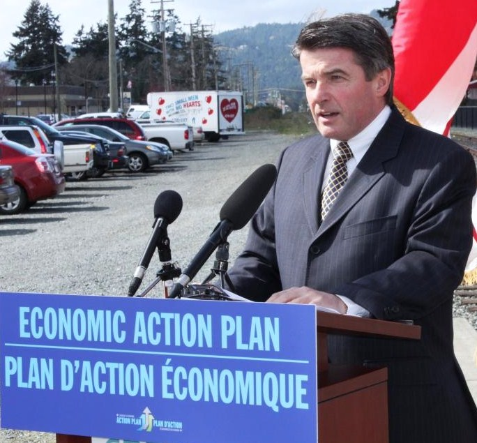 Minister Gary Lunn giving a speech in March 2010.